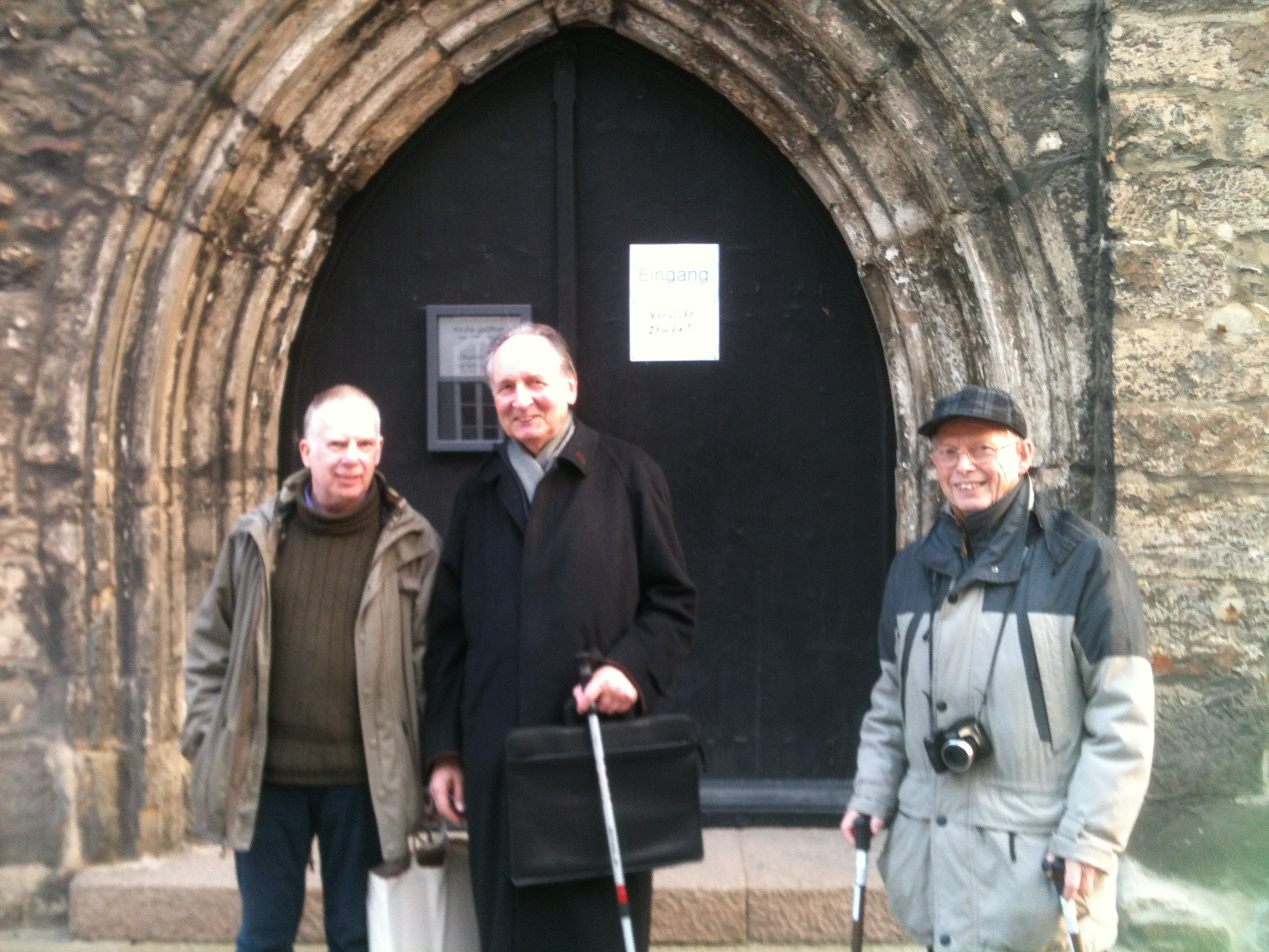 Robin Beaumont (Organist, Newcastle upon Tyne), Klaus Dieter Kern (Church Music Director Emeritus of the Market Church at Goslar) and Professor Dr Johannes Lähnemann (Professor Emeritus for Religious Education, University of Erlangen-Nuremberg) in front of the Market Church Goslar (Germany)